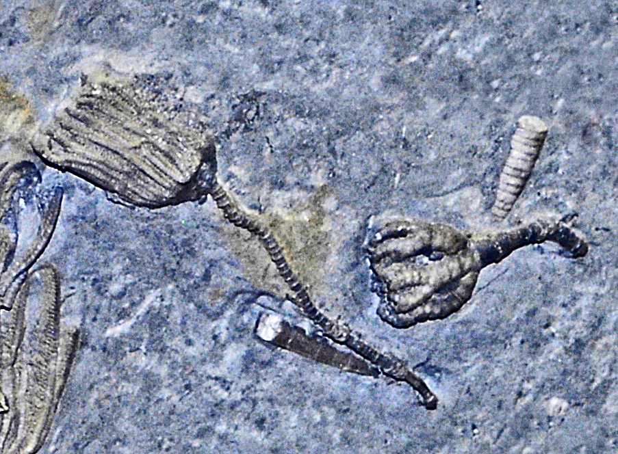 Fossil of Taxocrinus species (on the right) from Carboniferous of United States, on display at the Museo Civico di Storia Naturale di Milano